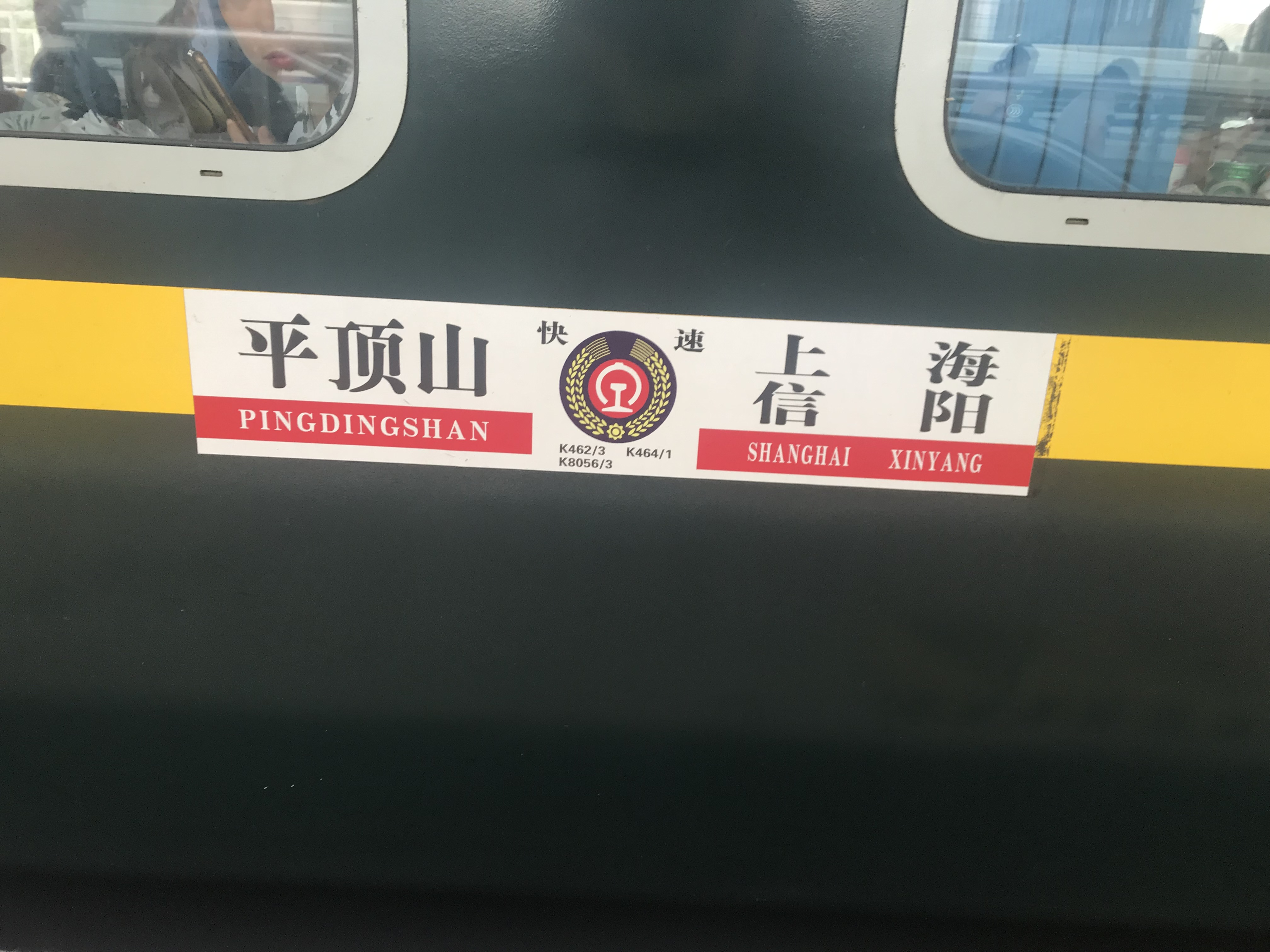 Taken at Wuxi Station